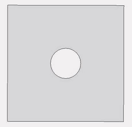 Model